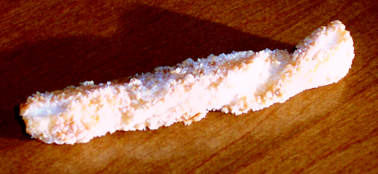 Sacristan is also a name for a twisted cookie made from puff pastry, sugar, and sometimes almonds. Taken by user Rbedford on February 9th, 2007. Baked by the author in the pastry kitchen at Schoolcraft Community College in Livonia, Michigan.